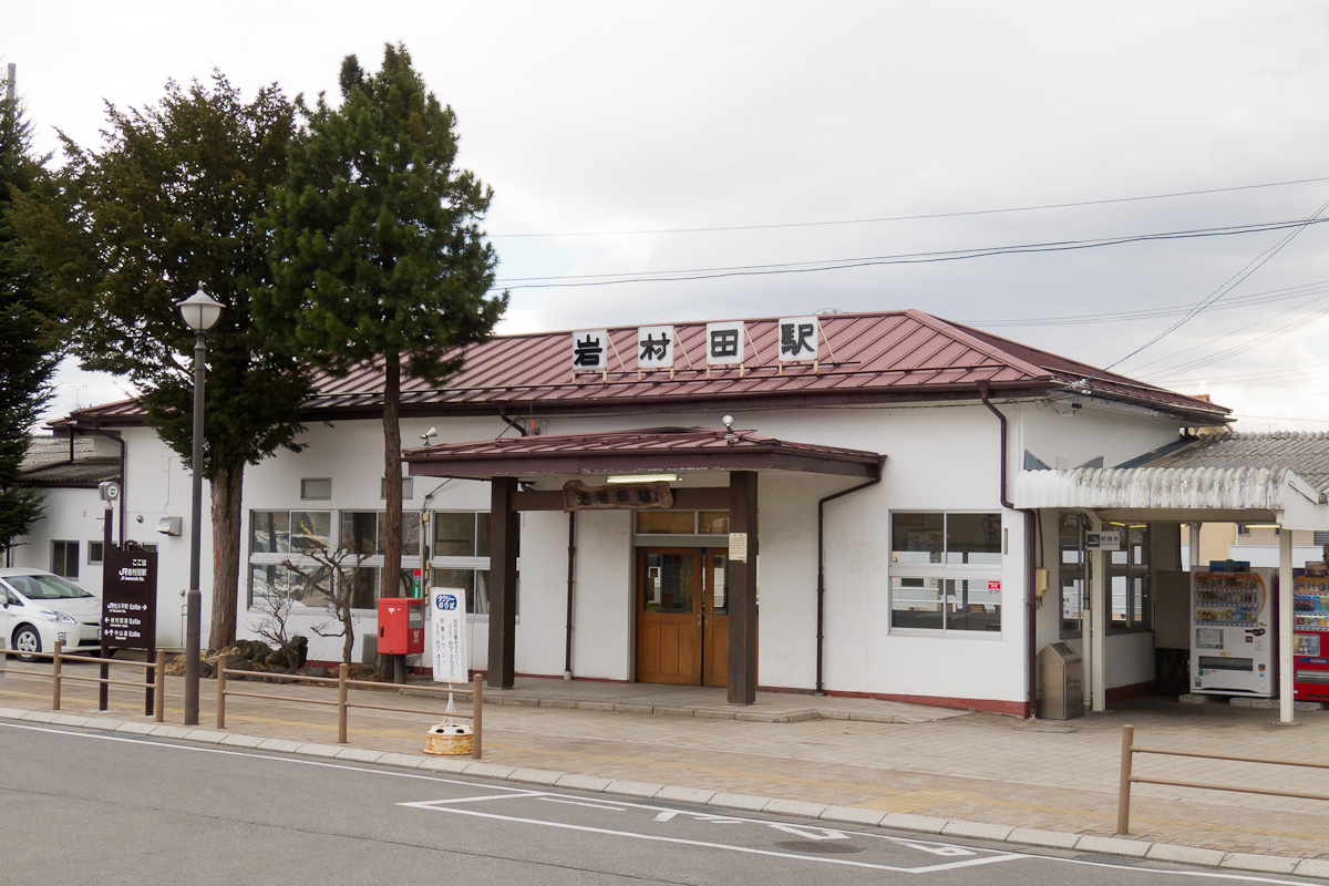 JR East Koumi-line Iwamurada station, Saku, Nagano.